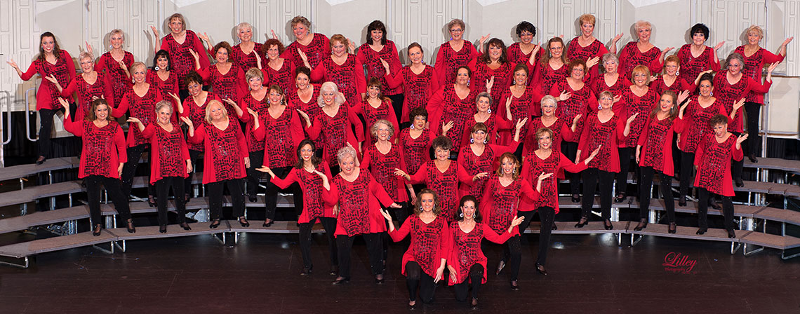 Group photo of the Tucson Desert Harmony Chorus at the 2016 Regional Competition.